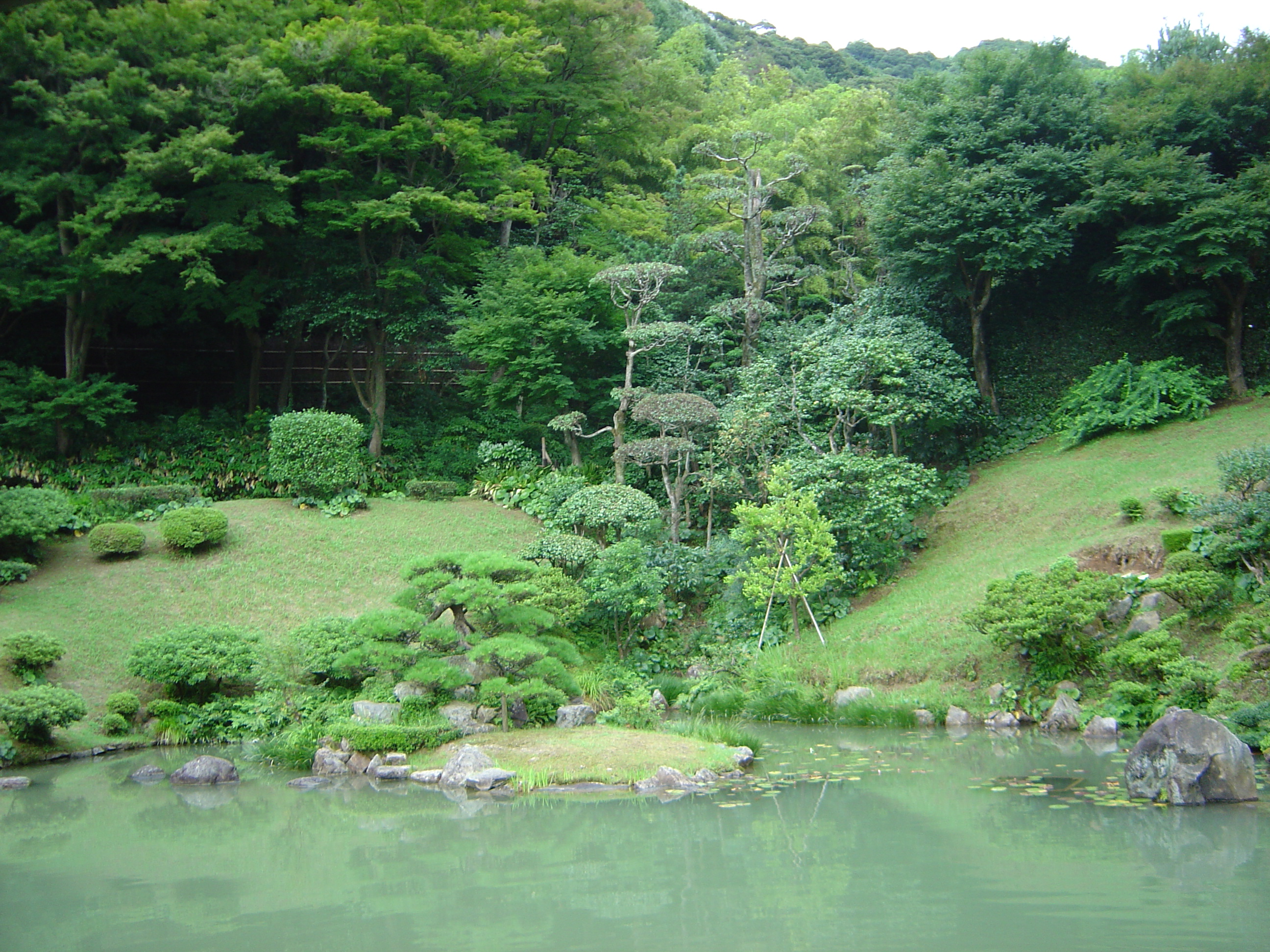 KannonIn (temple of Bodhisattva Kannon), Tottori, Japan: the gardens